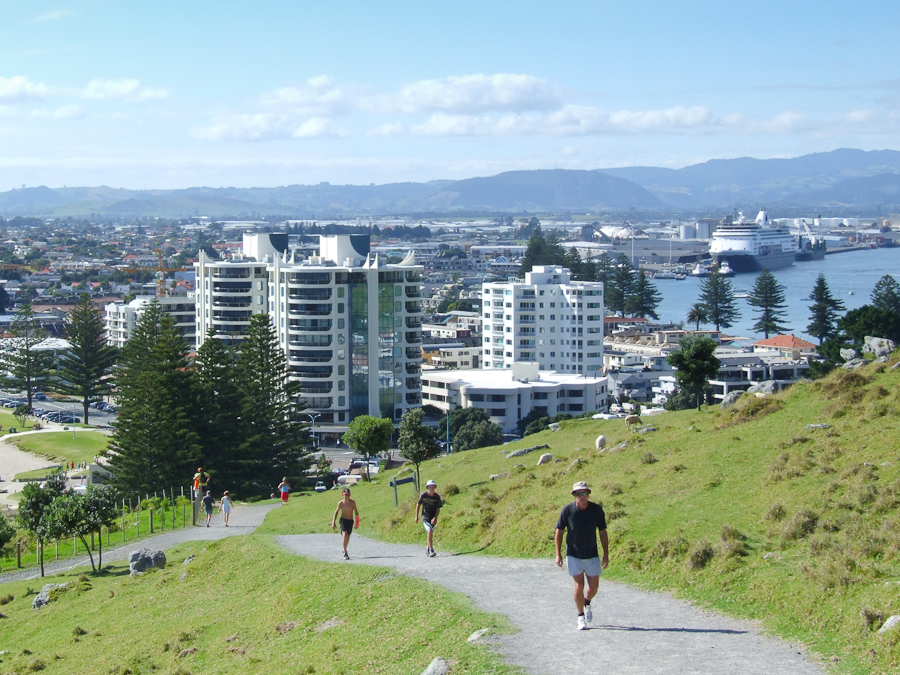 View of Mount Maunganui and the Port of Tauranga, from half way up Mount Maunganui, on the ocean side.